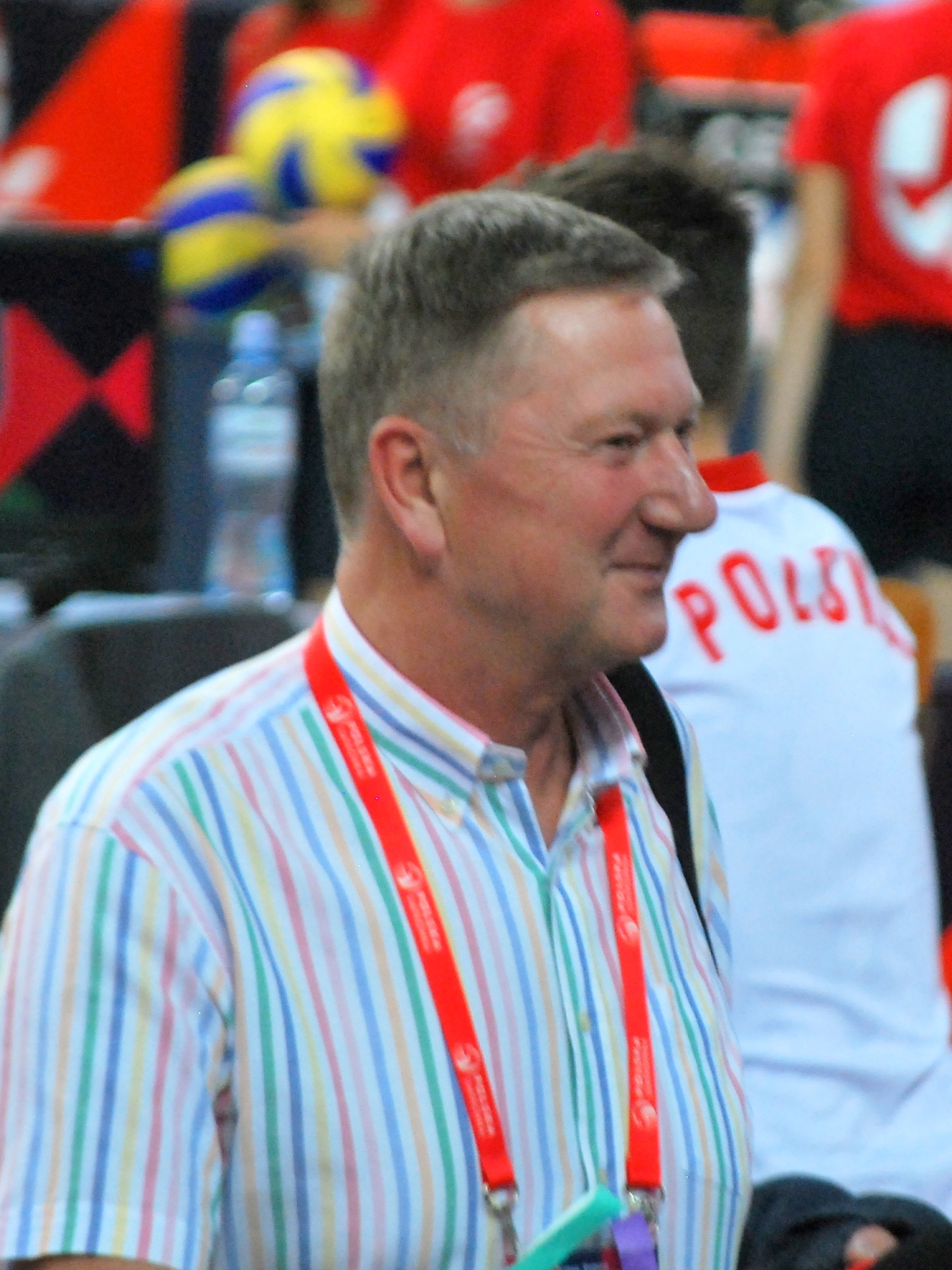 Maciej Jarosz, former volleyball player from Poland, a member of Poland men's national volleyball team, a participant of the Olympic Games Moscow 1980, silver medalist of the European Championship (1977, 1979, 1981)